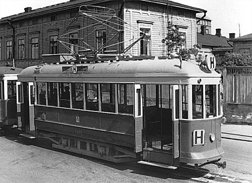 Norddeutsche Waggonfabrik/AEG tram no. 118 on line H in Helsinki